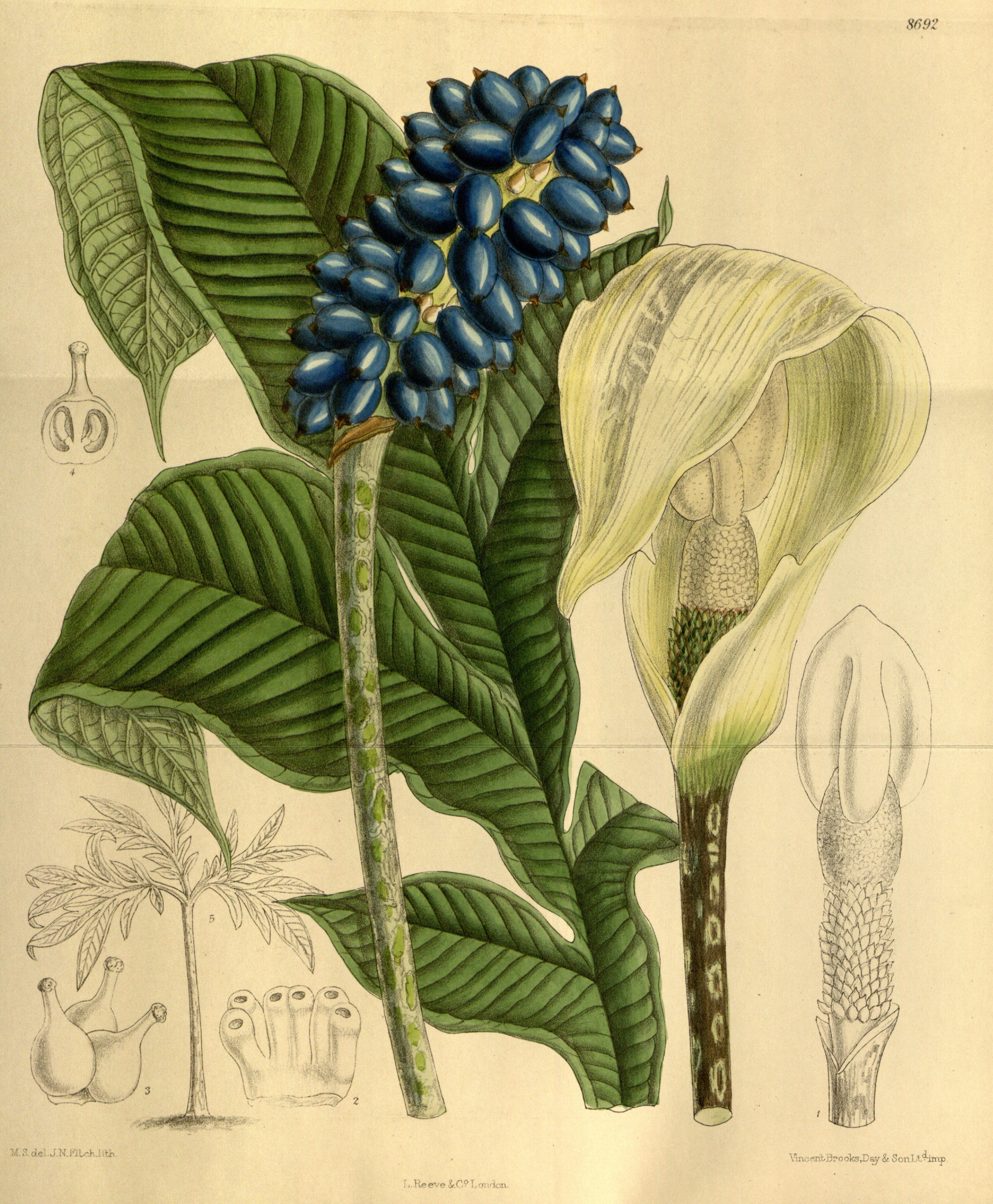 Amorphophallus kerrii (= Amorphophallus yunnanensis), Araceae